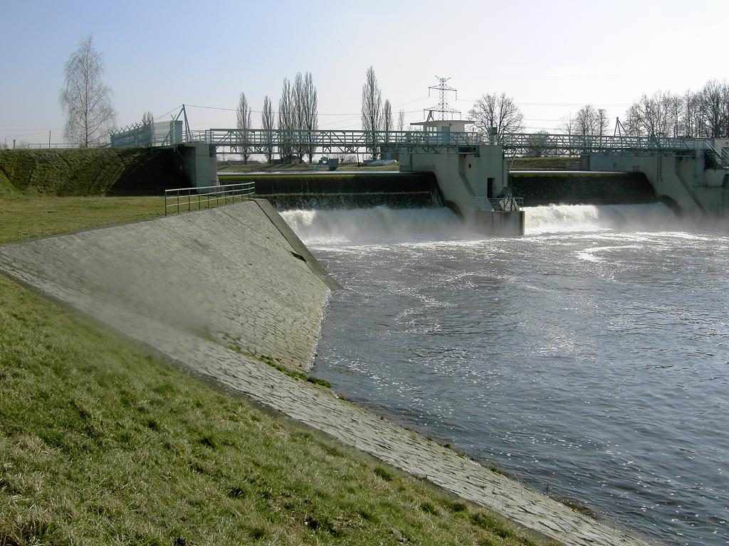 Dam České Vrbné at Vltava River near of city of České Budějovice, the Czech Republic